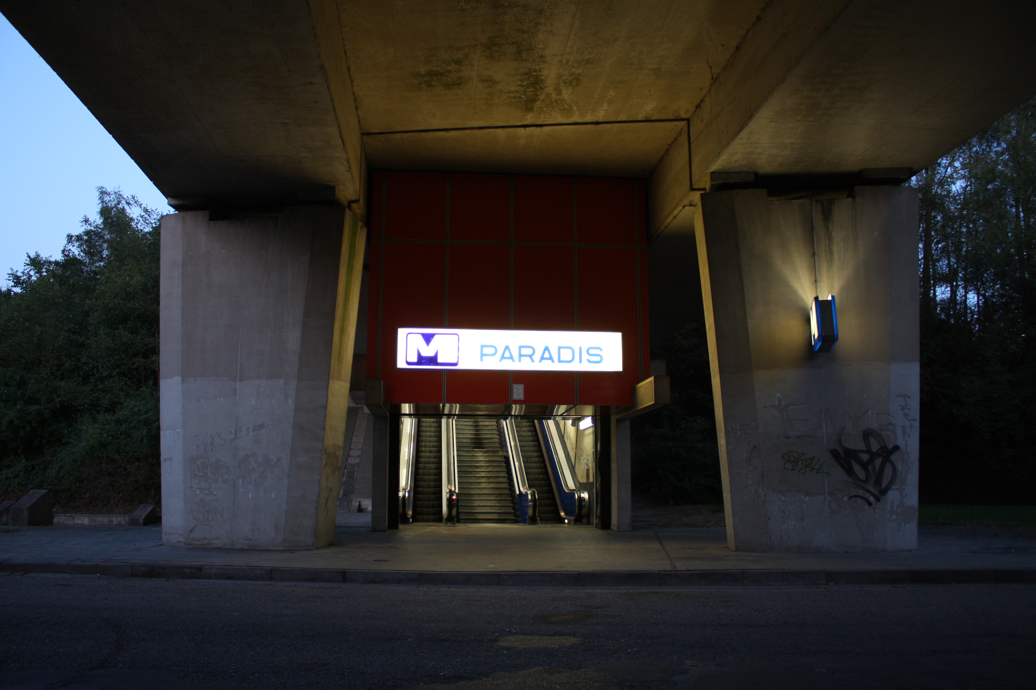 Paradis station outside Shot on 2009-09-19 on a tour of Charleroi's subway, kindly hosted by TEC-Charleroi. - OpenStreetMap(Info)